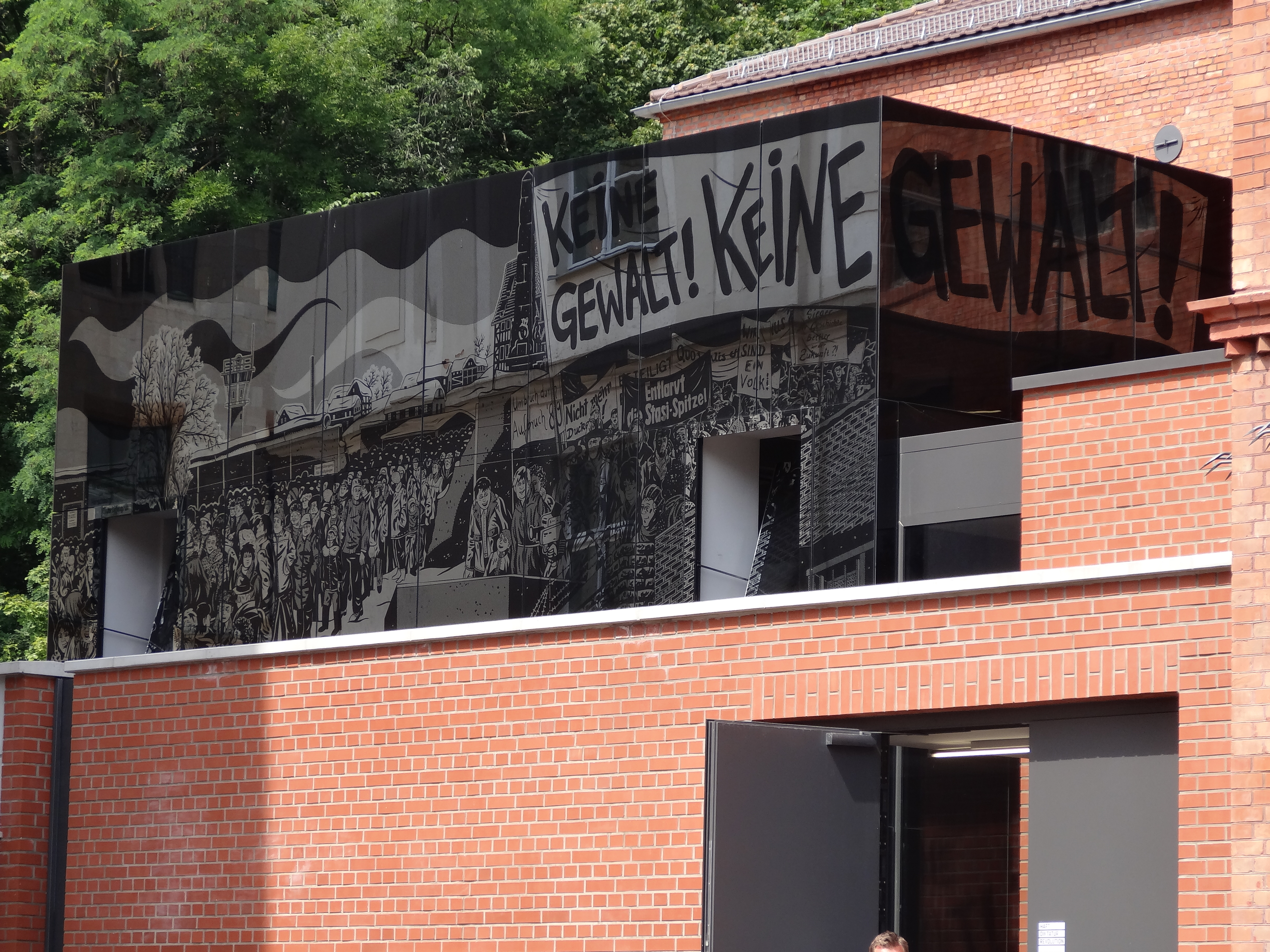 Facade at the Memorial and Study Centre Andreasstraße, Erfurt